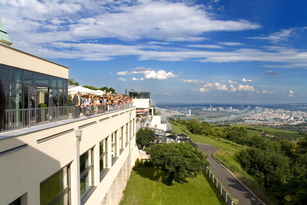 MODUL University Vienna